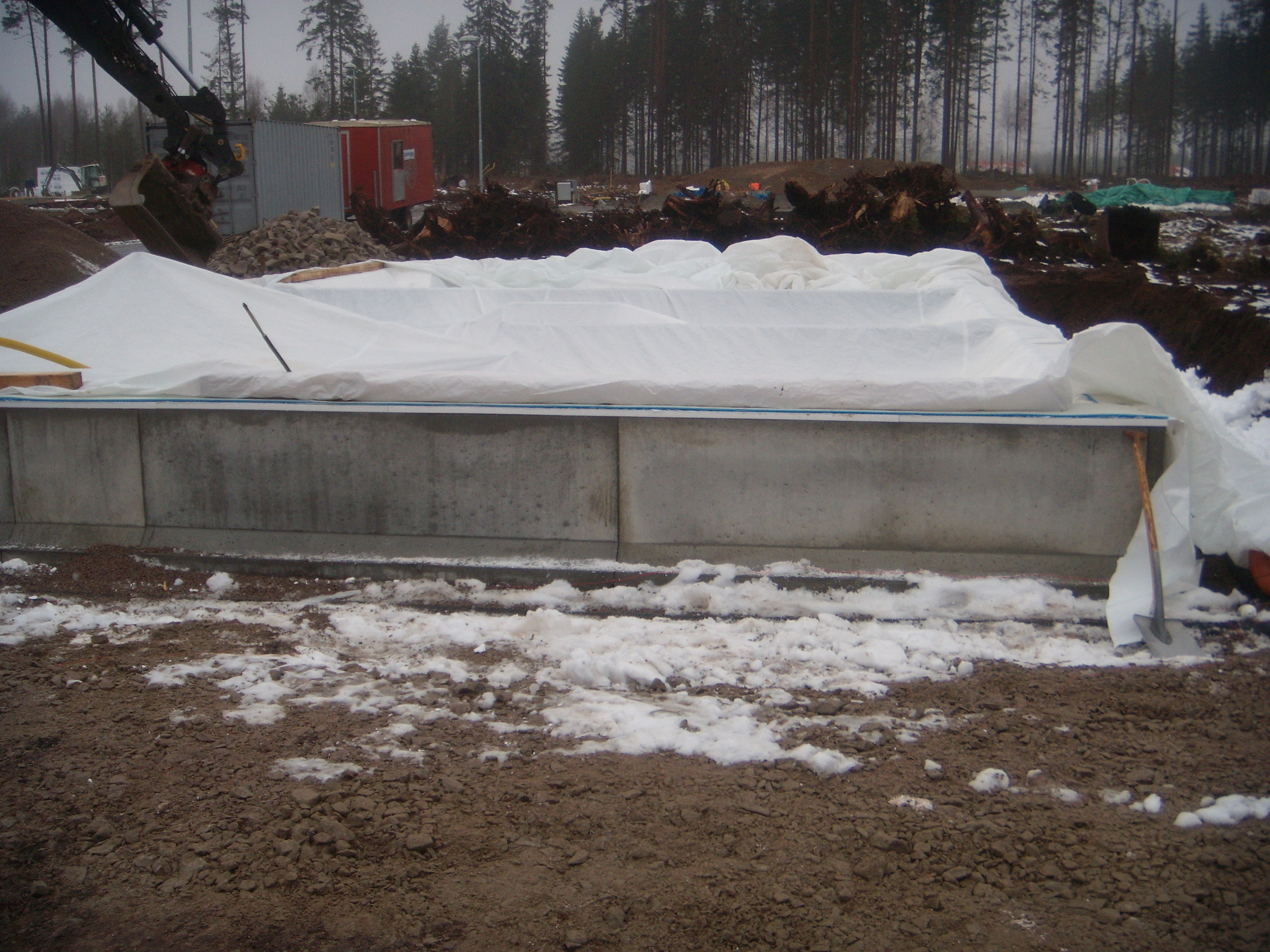 Crawl space